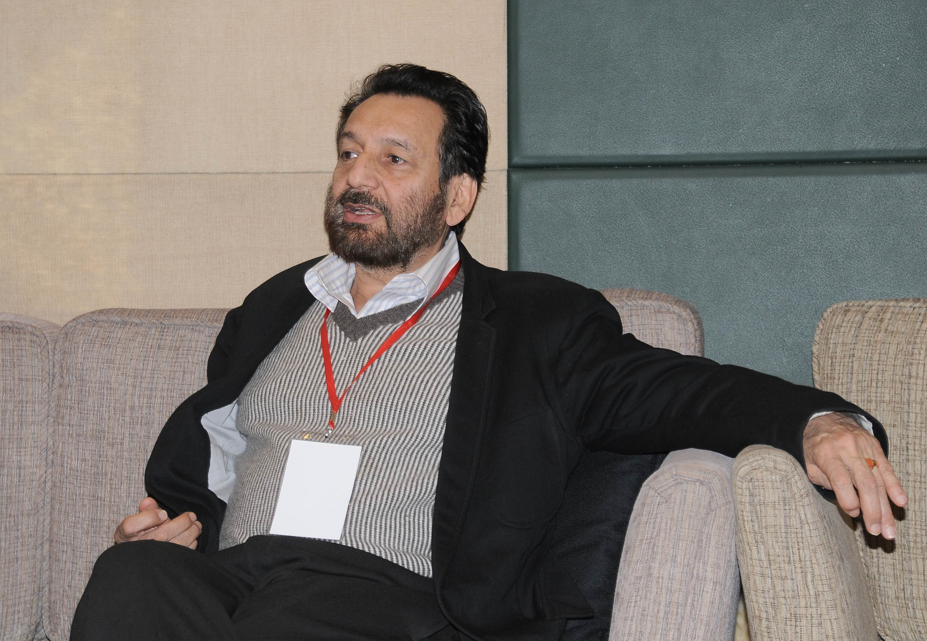 Shekhar Kapur at XML Beijing event "Creative Industries", 2008.